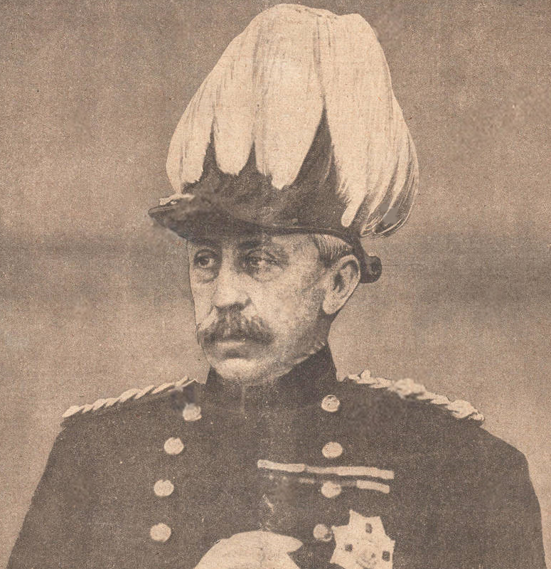 Lieutenant General Sir Frederick William Stopford was a British Army officer, best remembered for commanding the landing at Suvla Bay in August 1915, during the Gallipoli Campaign. This image comes from the 7 January 1916 issue of The Daily Sketch. Artefacts of image editing exist because copyrighted watermarks had to be removed from the image with an image editor. The source image, however, is still in the Public Domain. The Daily Sketch did not credit the original image author. Therefore, it is not possible to determine who took the image, and PD-UK-unknown thus applies. This image comes from the 7 January 1916 issue of the Daily Sketch, reproduced on Alamy: .